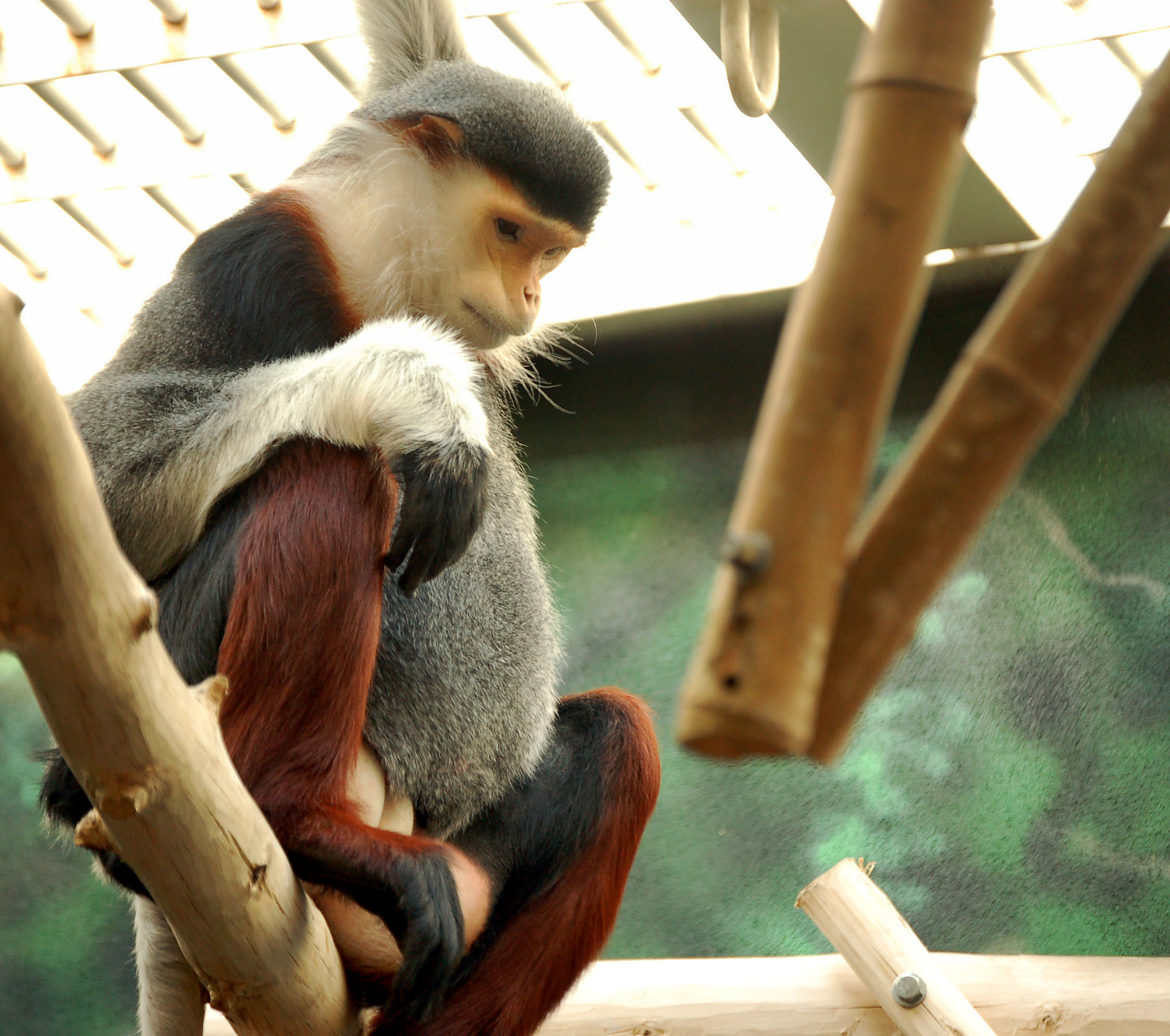 Red-shanked Douc (Pygathrix nemaeus) at Philadelphia Zoo.